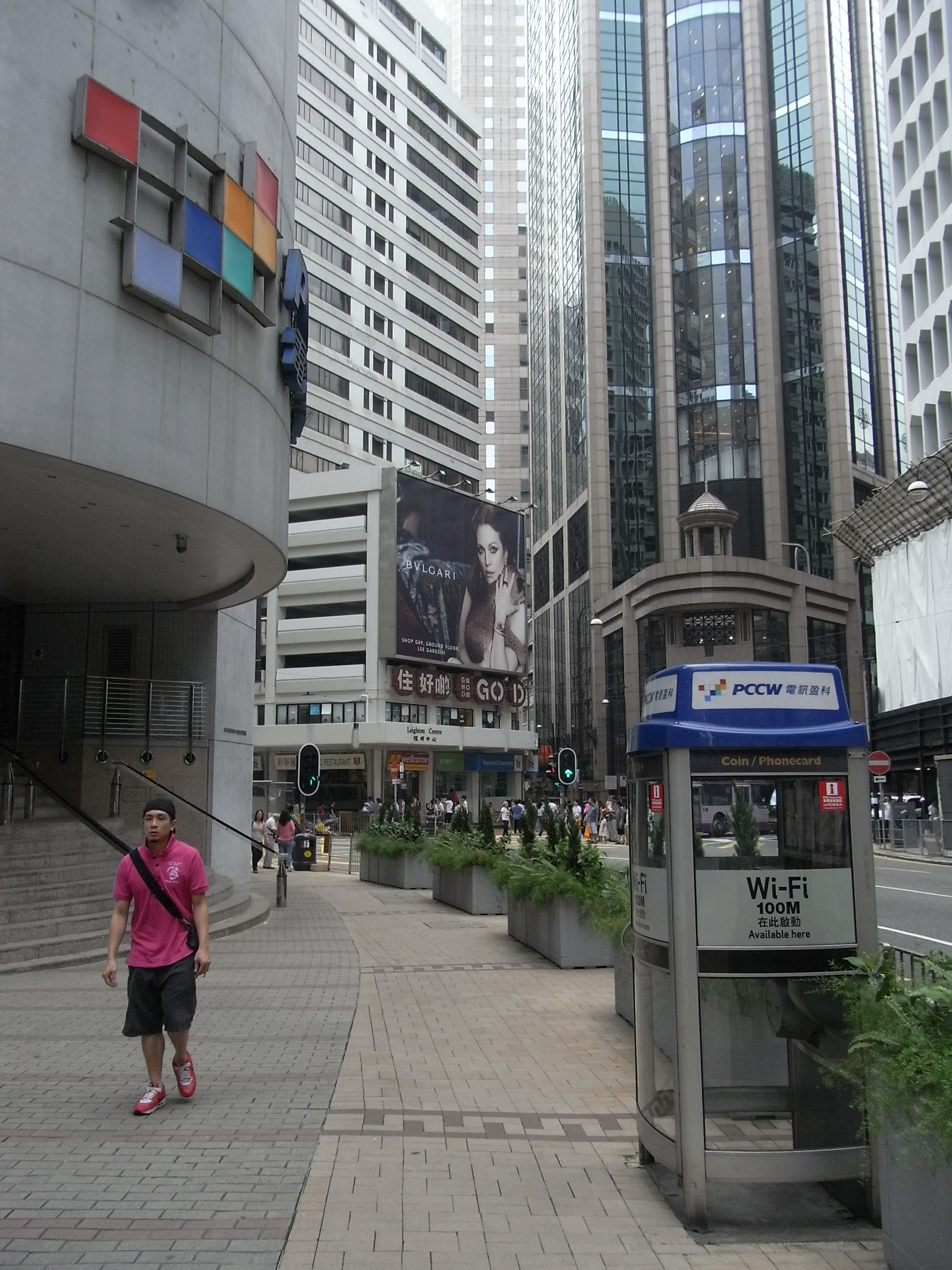 銅鑼灣 禮頓道